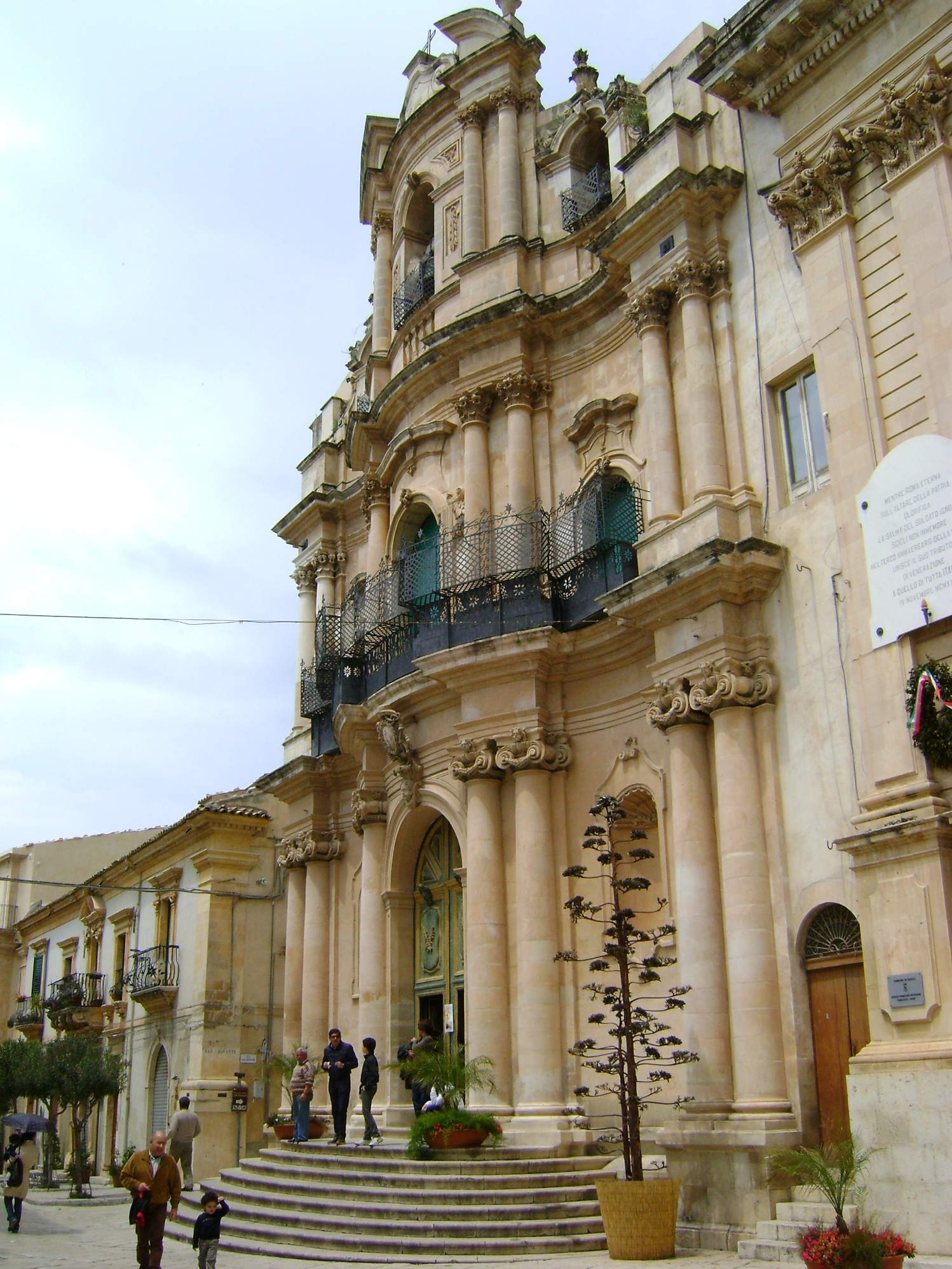 The church of San Giovanni Evangelista, Scicli, province of Ragusa, Sicily